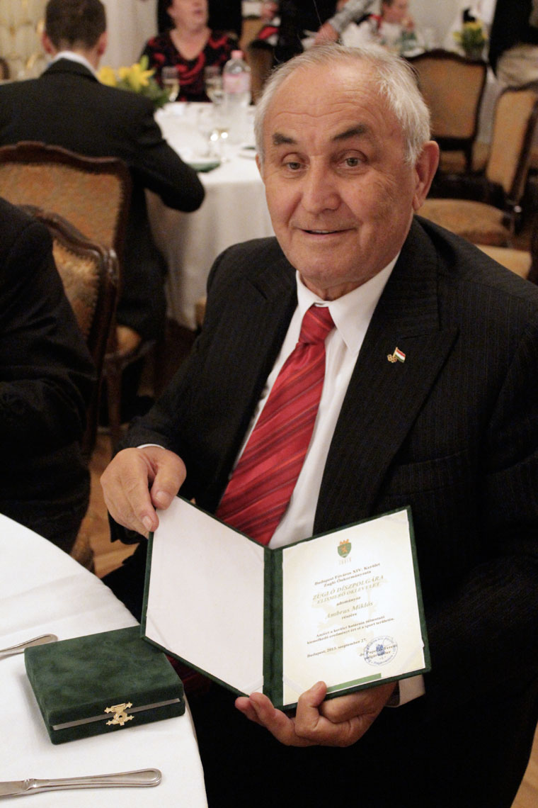 Miklós Ambrus is a Hungarian former water polo player who competed in the 1964 Summer Olympics.